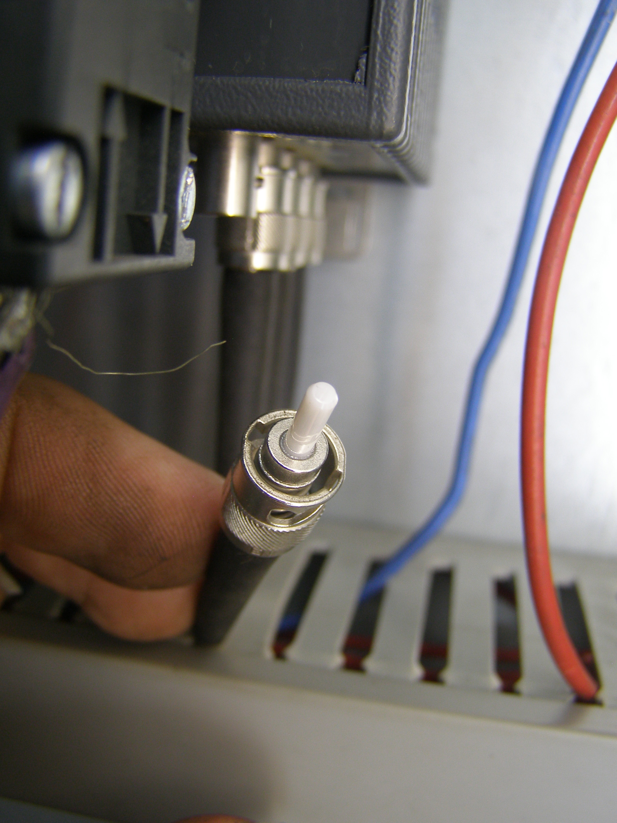 Siemens OLM/G12 optical interface connector.